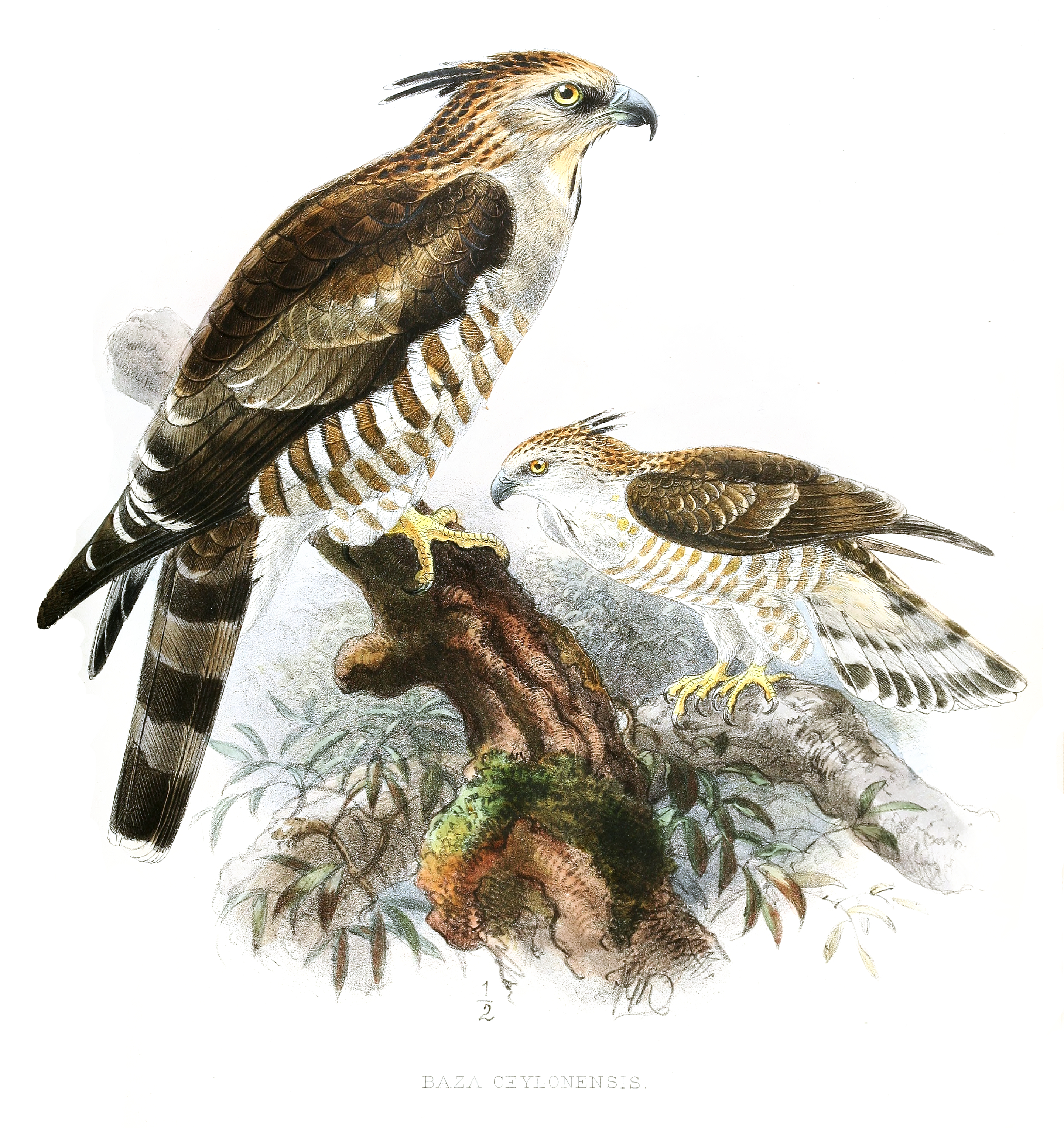 Aviceda jerdoni ceylonensis